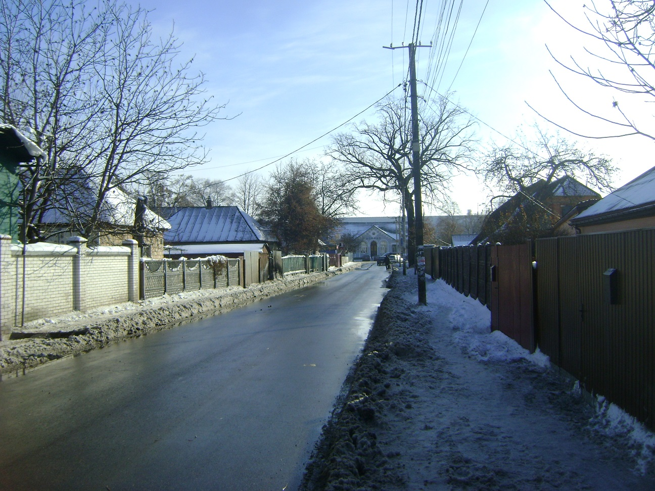 Symon Petlyura Street and Brovary railway station, Brovary, Kyiv Oblas, Ukraine.